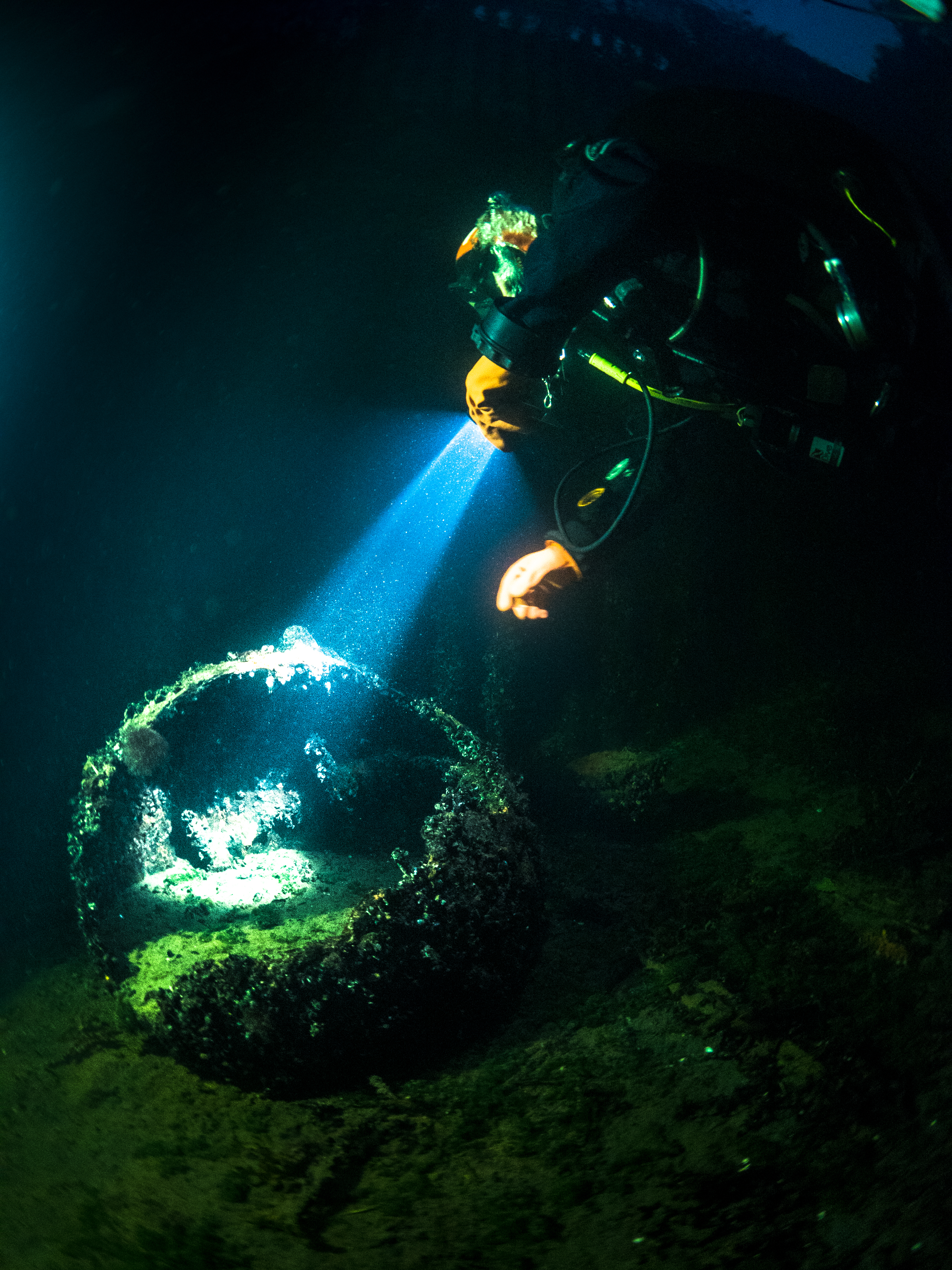 Broken mine from World War II, Gålö